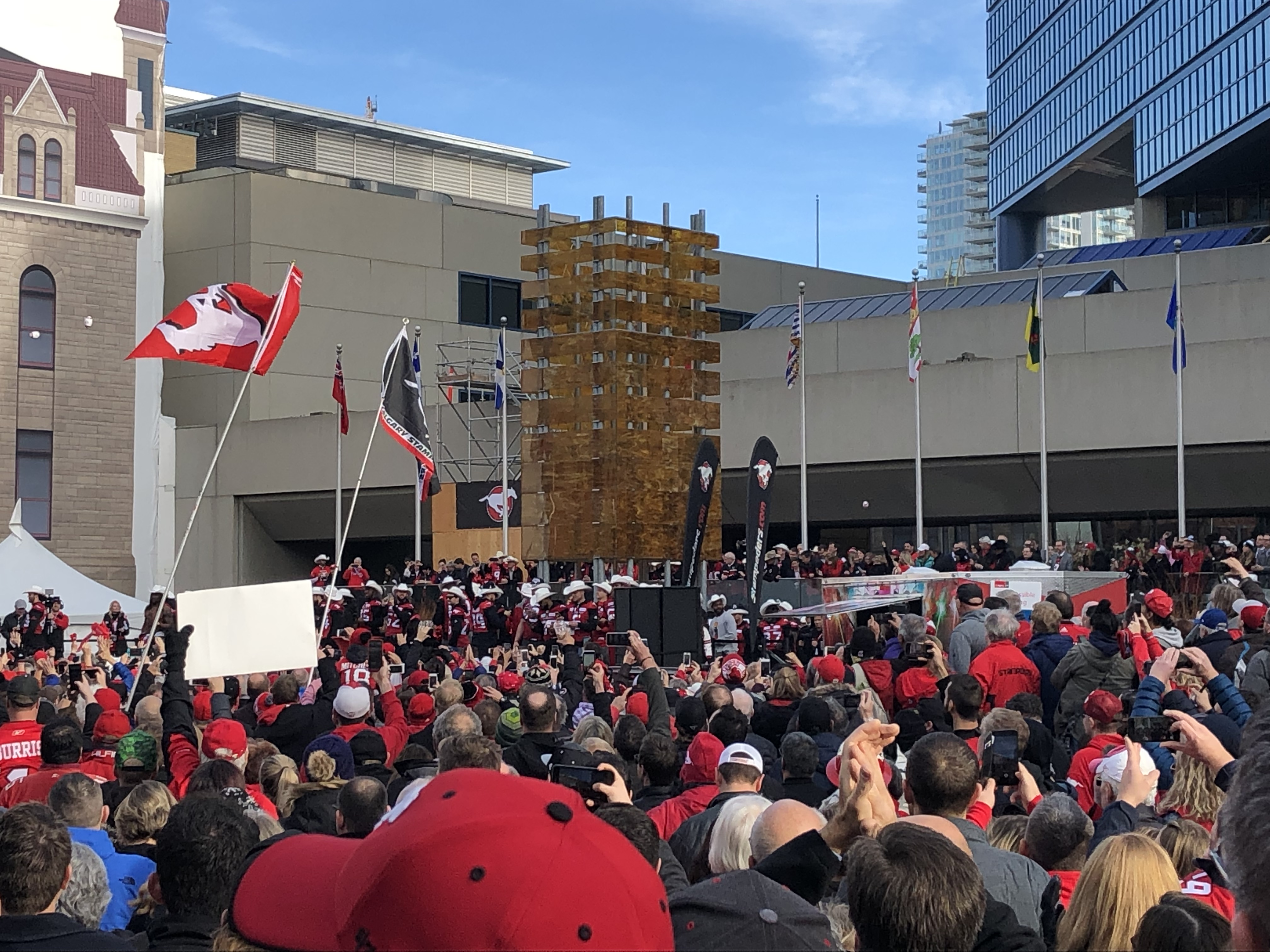 106 Grey Cup Rally - 27 November 2018 Calgary, Alberta